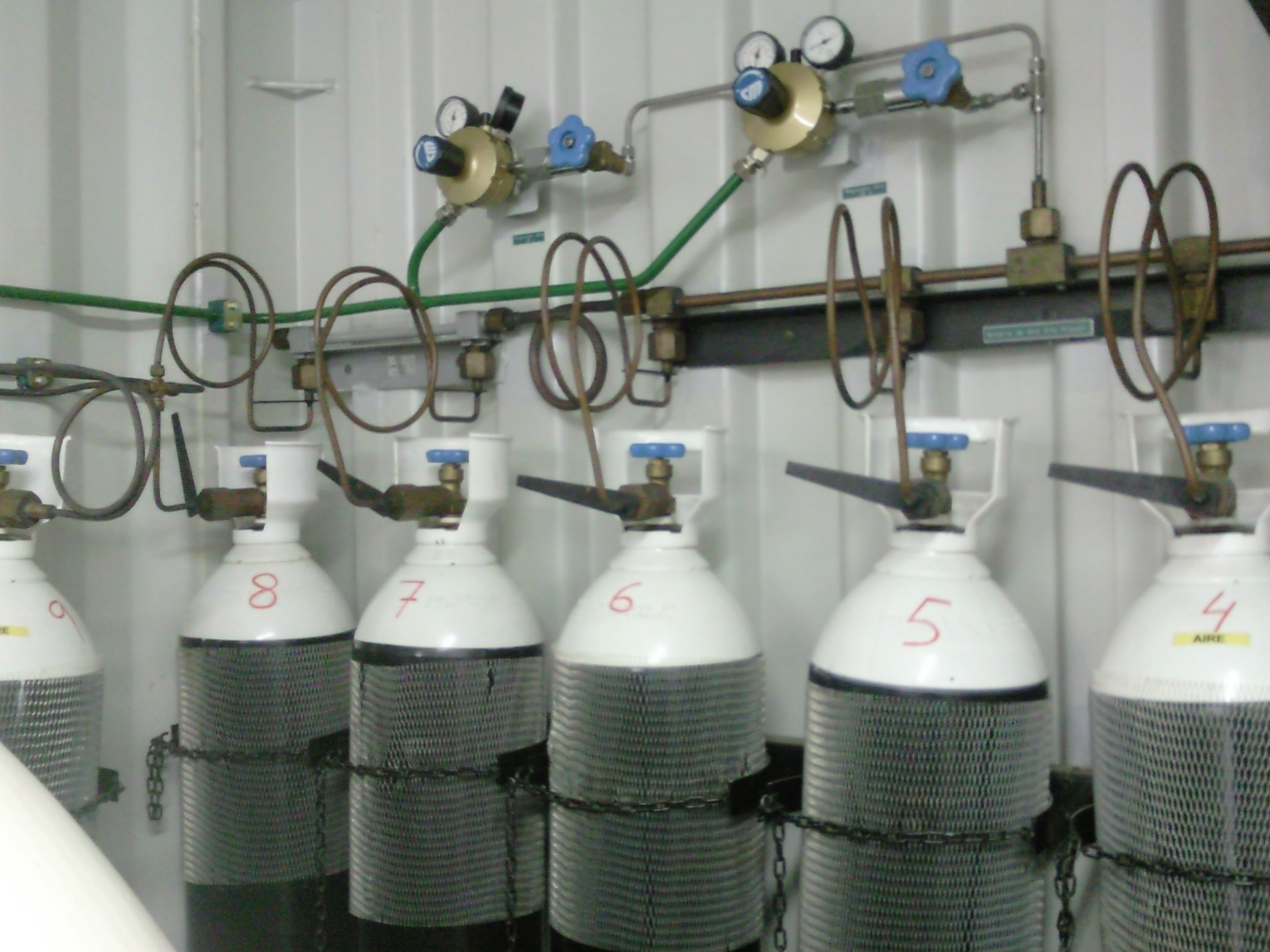 High pressure medical oxygen storage bank for hyperbaric chamber